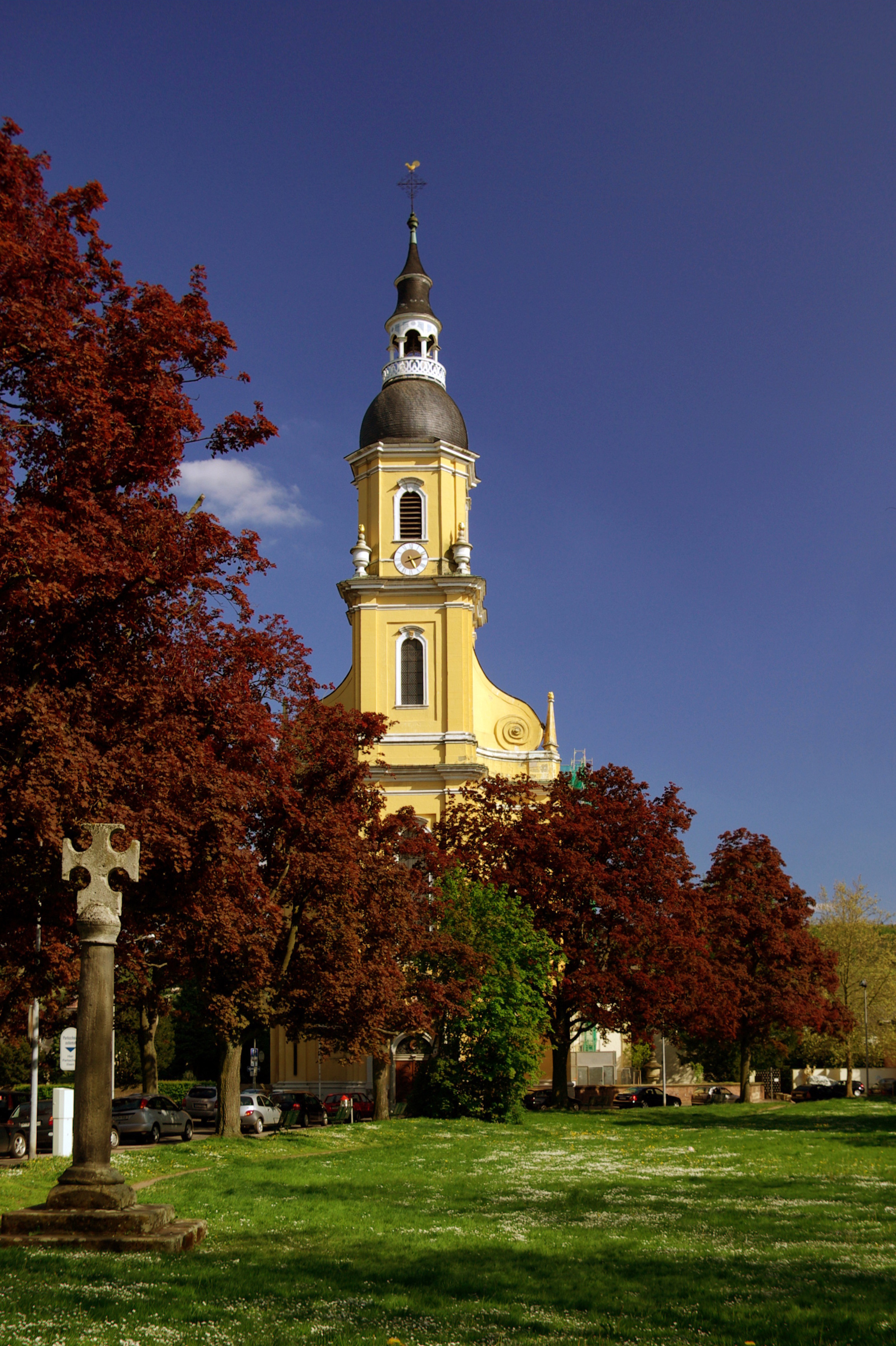 Germany, Trier, St. Paulin church